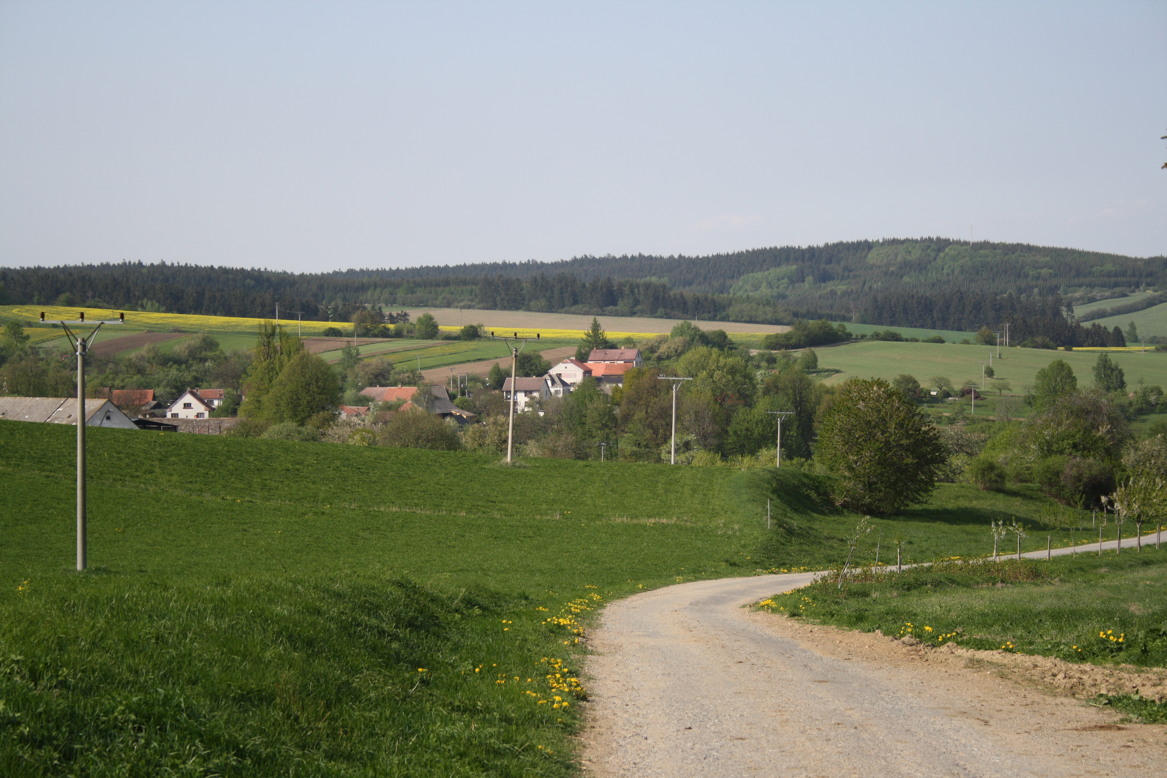 Štěměchy south overview from hill.